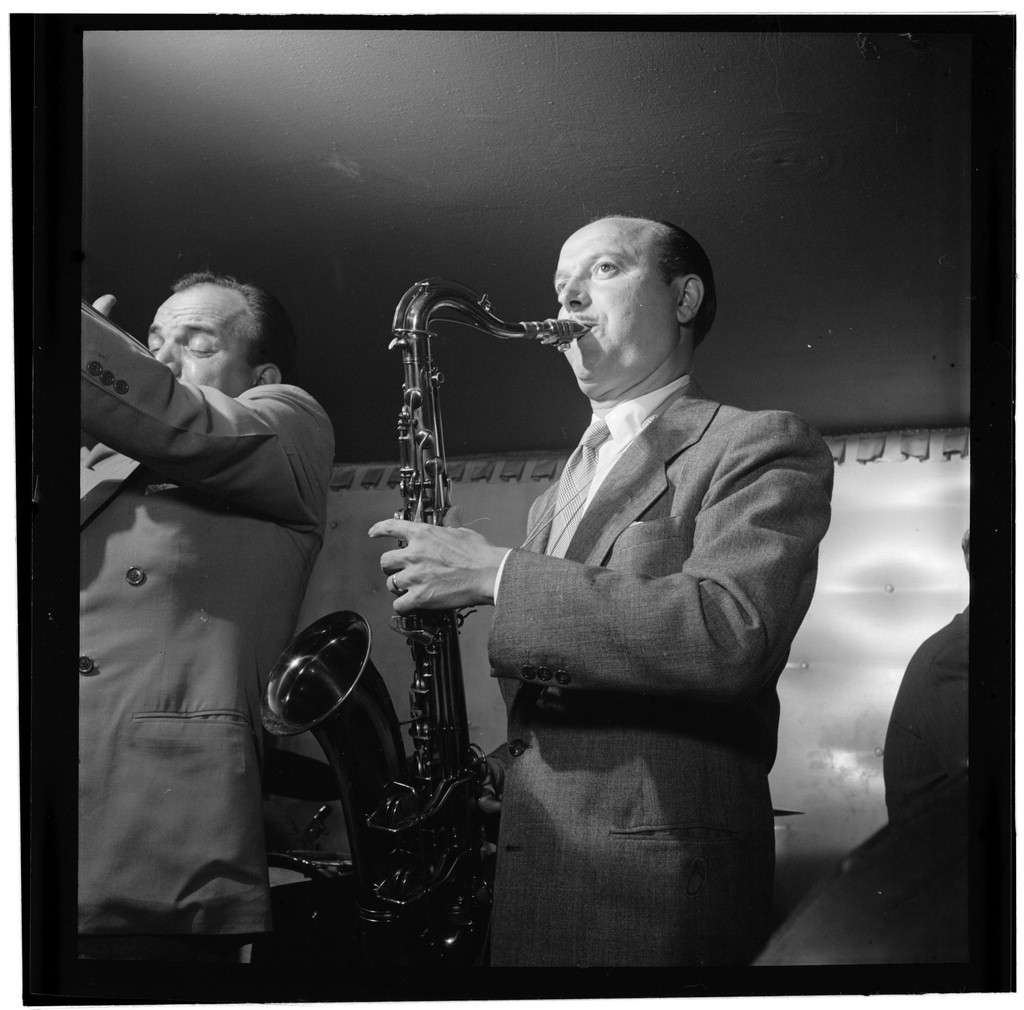 Portrait of Bud Freeman and Marty Marsala, Jimmy Ryan's (Club), New York, N.Y.